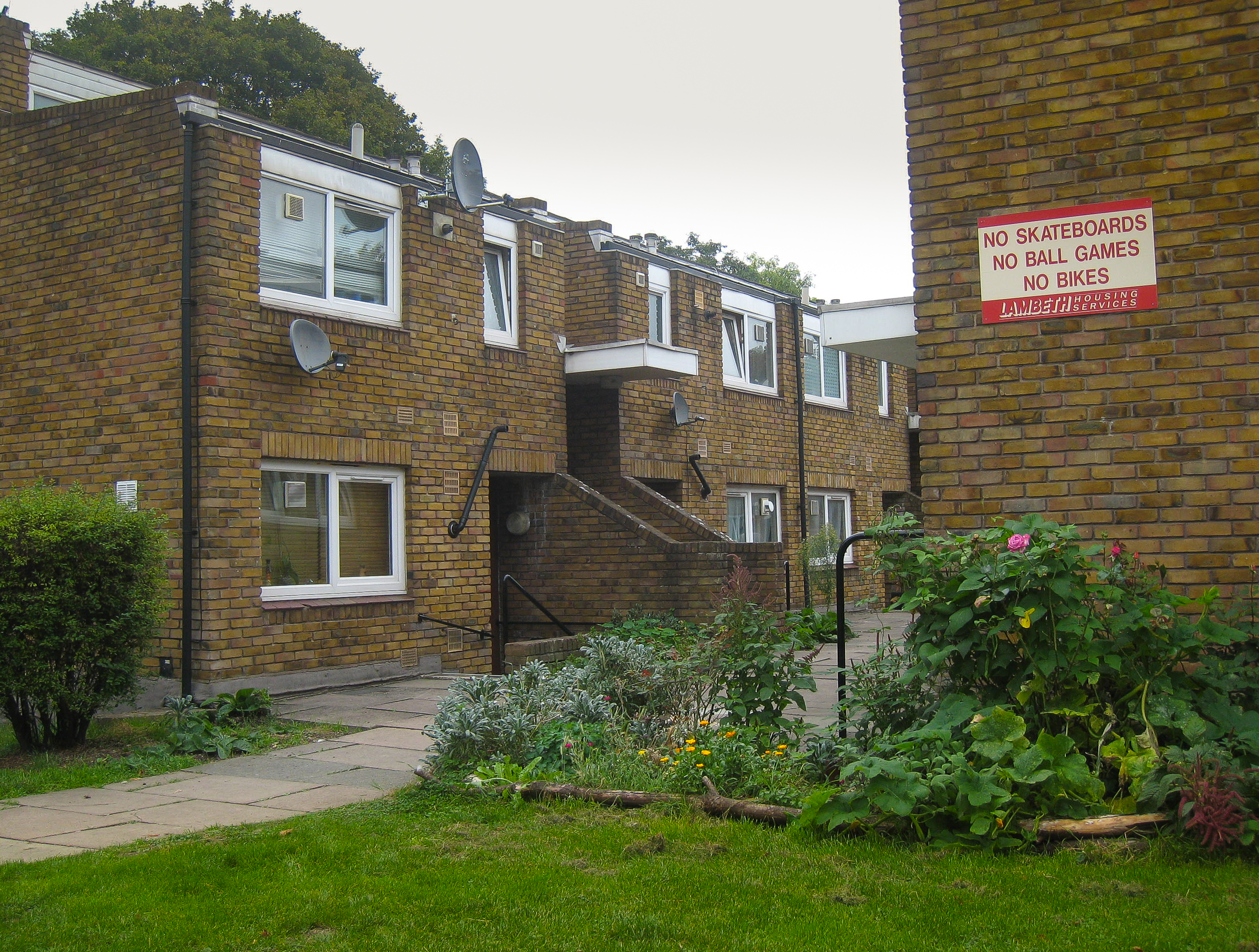 Cressingham Gardens Sept 2014